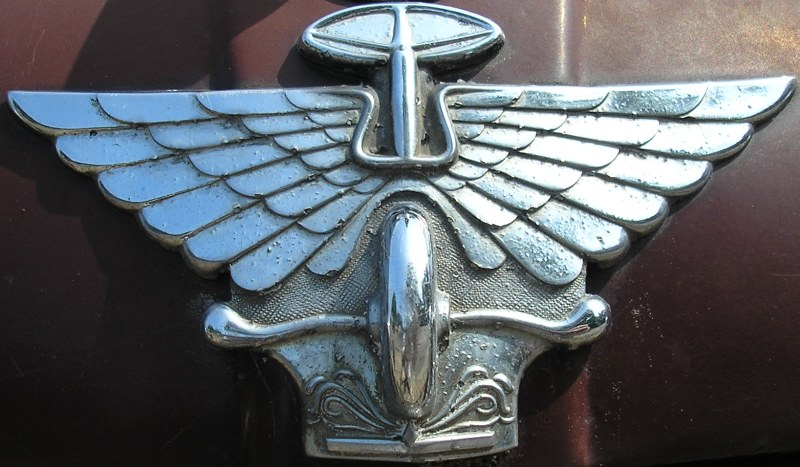 Ornament on Austin Ten GS 1 Dutch registration states: First issued 1946-06-30, 4 cylinders, 940 kg net weight. --- Location: Near Goor, Netherlands